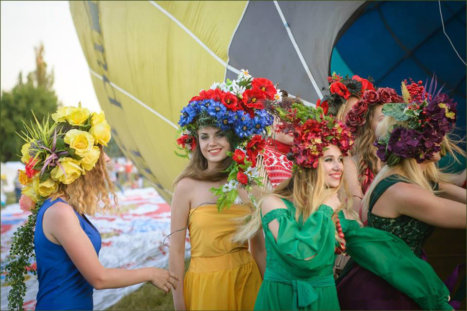 Wiki KM 005